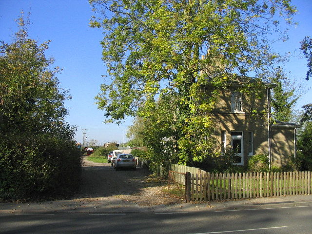 Route of old railway, Snape, Suffolk. At one time the Maltings at Snape had its own branch line running from the Ipswich main line. It crossed the River Blyth via a bridge (approx. at end of track in above photograph)and had platforms within the Maltings complex itself.